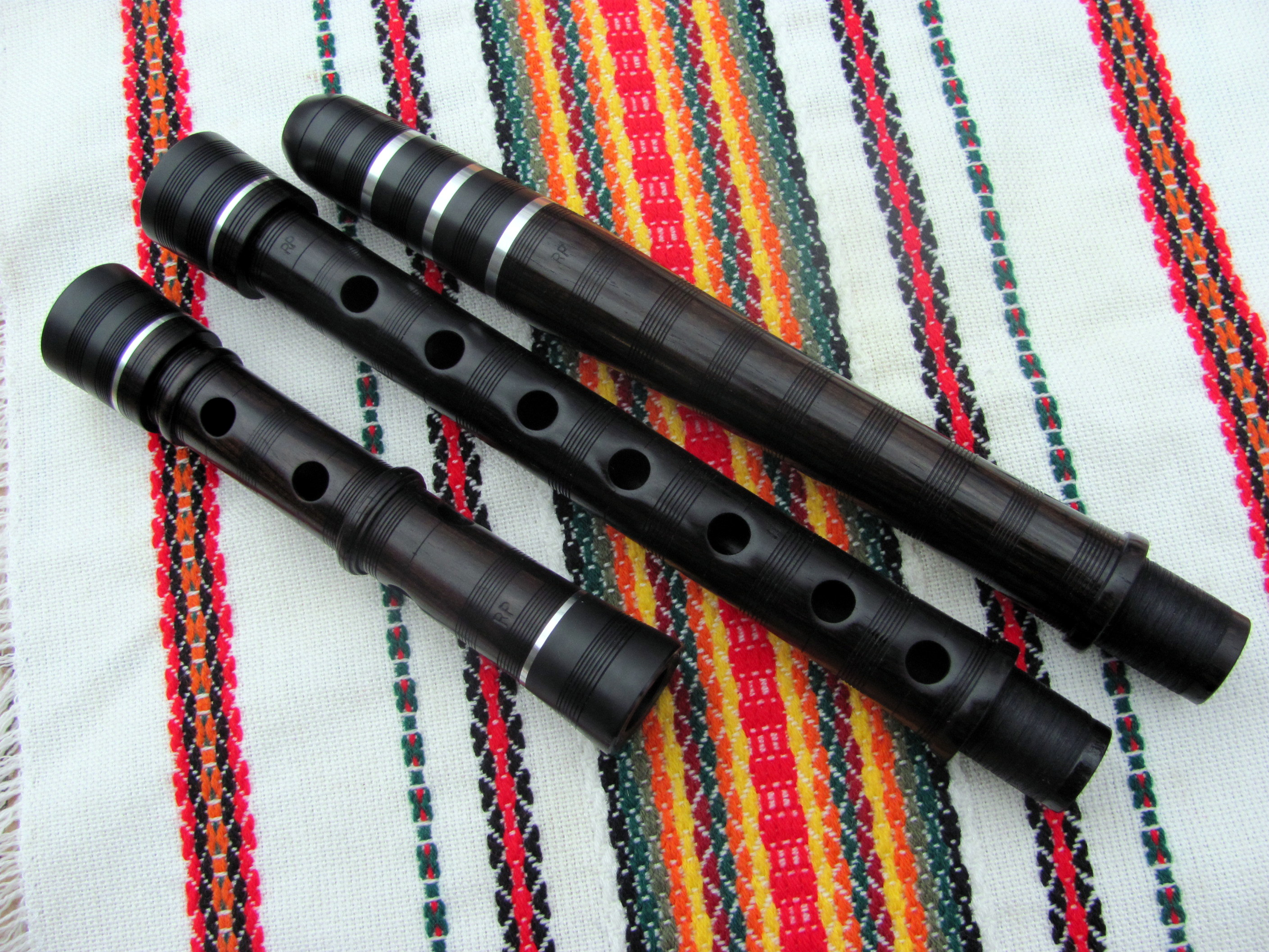 Bulgarian kaval, key of D, disassembled